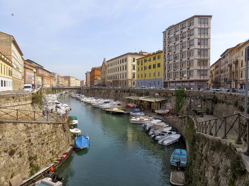 Fosso Reale seen from Piazza Cavour, Livorno